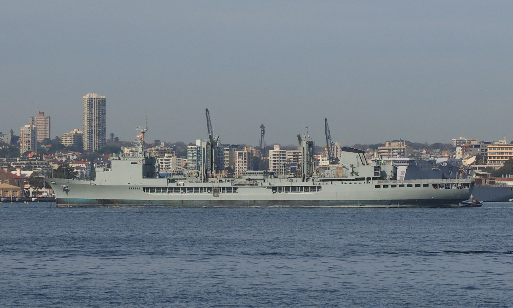 The former HMAS Success on Sydney Harbour after having her hull number painted over